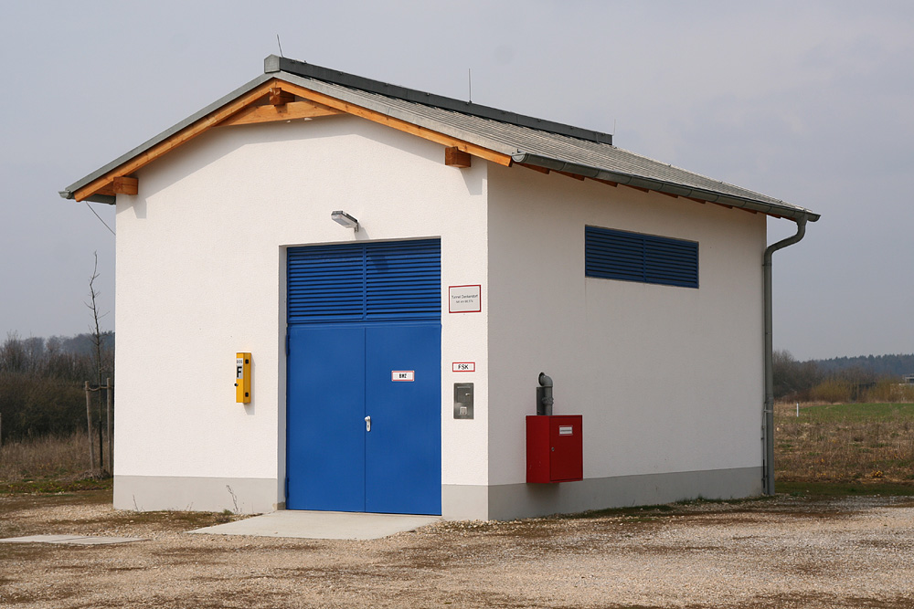 Surface exit of the emergency exit from the Denkendorf-Tunnel, Nuremberg–Ingolstadt high-speed railway line